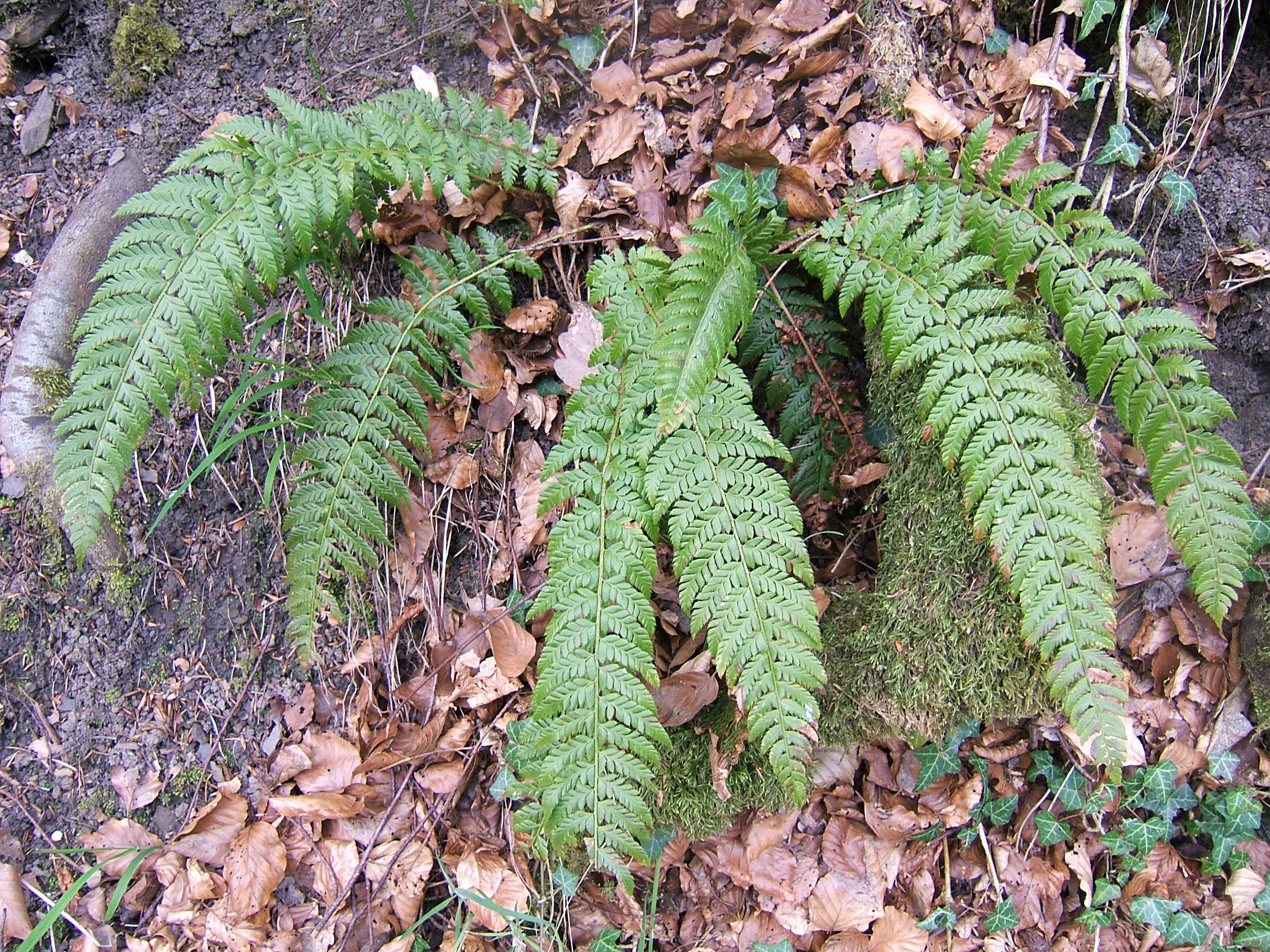 Polystichum aculeatum, Allenbanks, Northumberland, UK; 04 May 2006